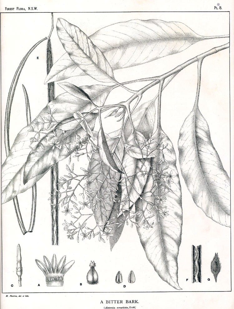 Alstonia constricta, Plate 8 from "Forest Flora of New South Wales" by Joseph Henry Maiden (1859–1925)